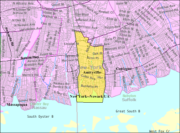 U.S. Census 2000 reference map for Amityville, New York.